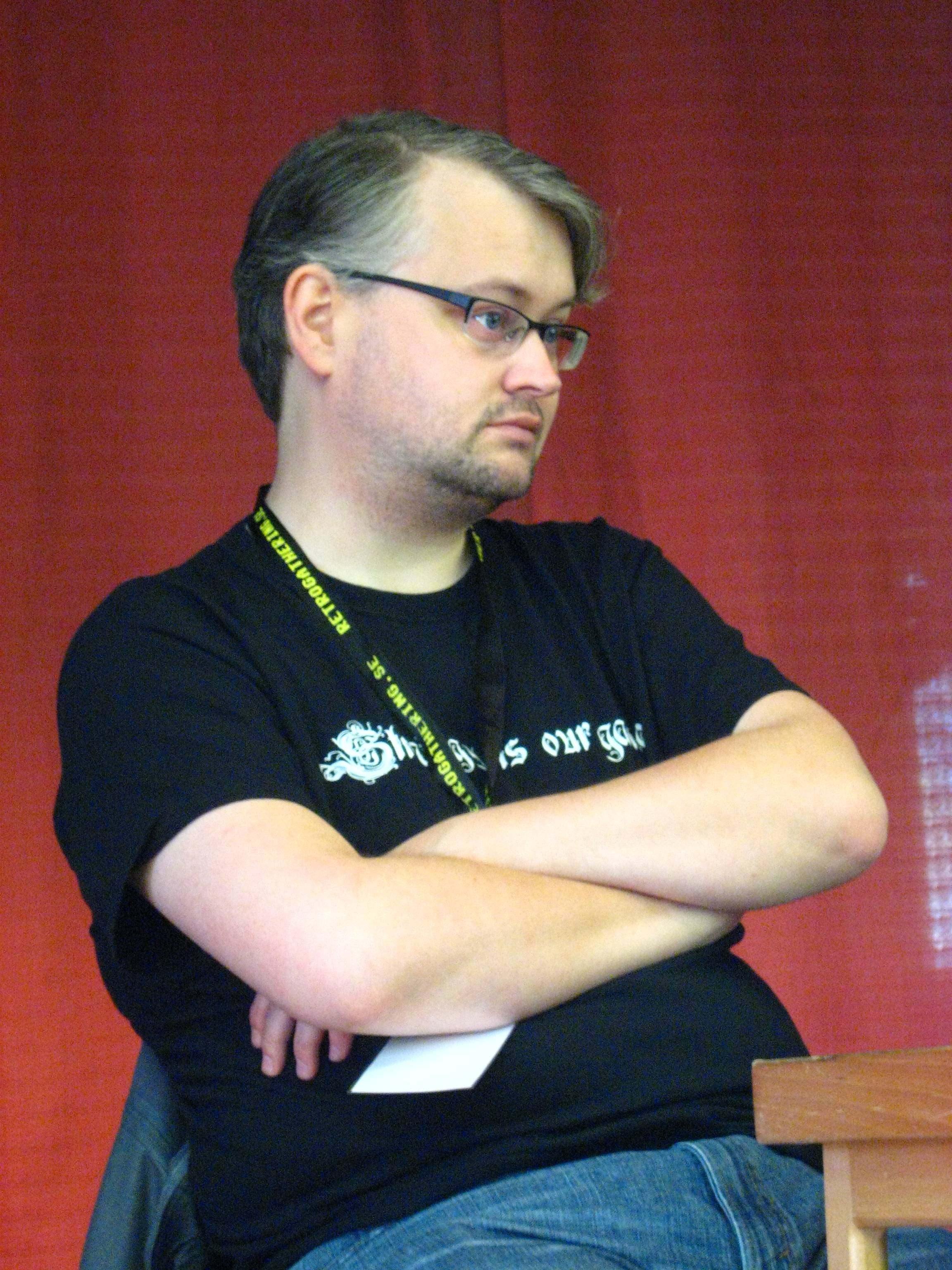 Johan Andersson at Retro Gathering in 2009